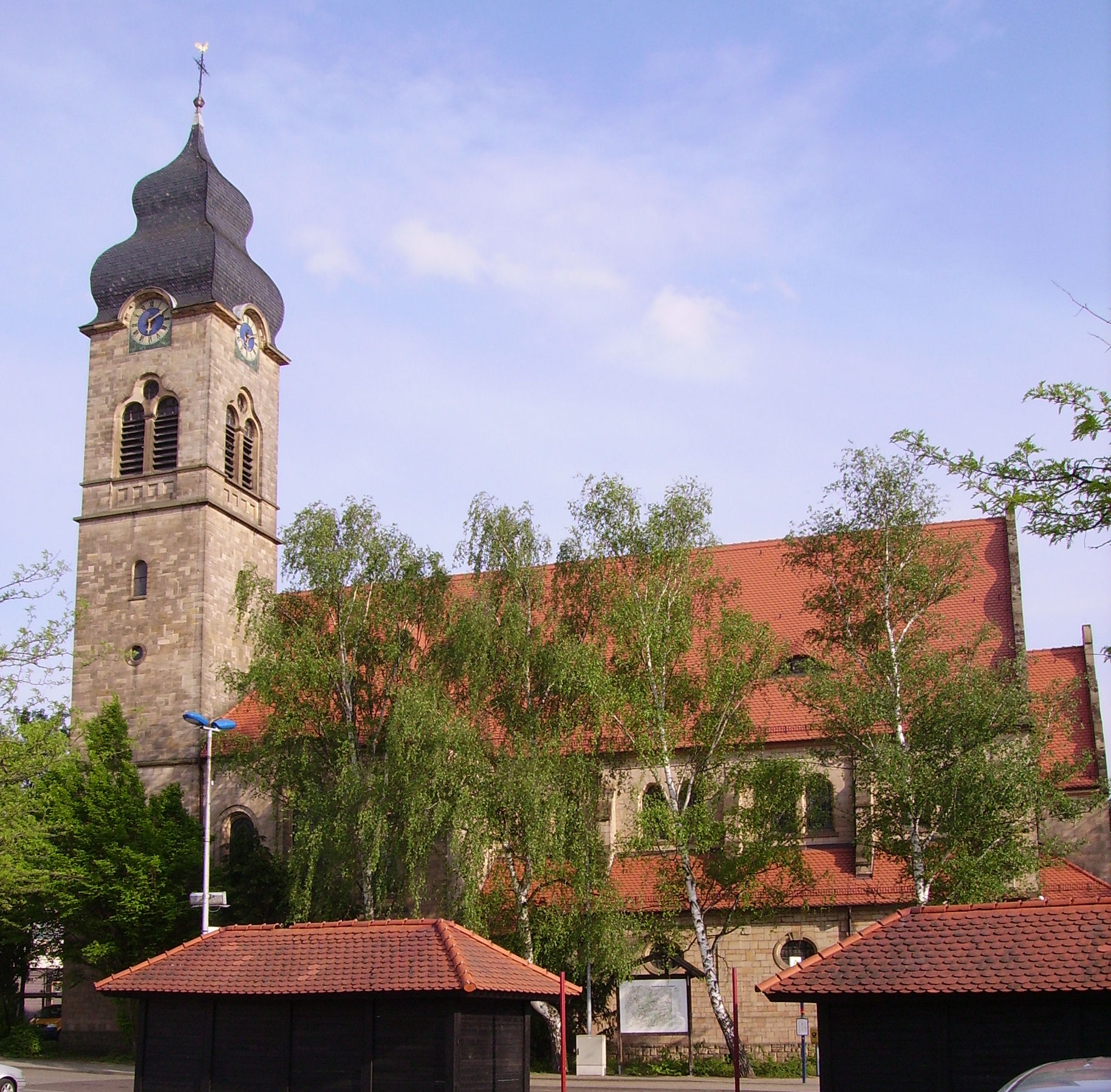 church in Eisenberg (Pfalz), Germany